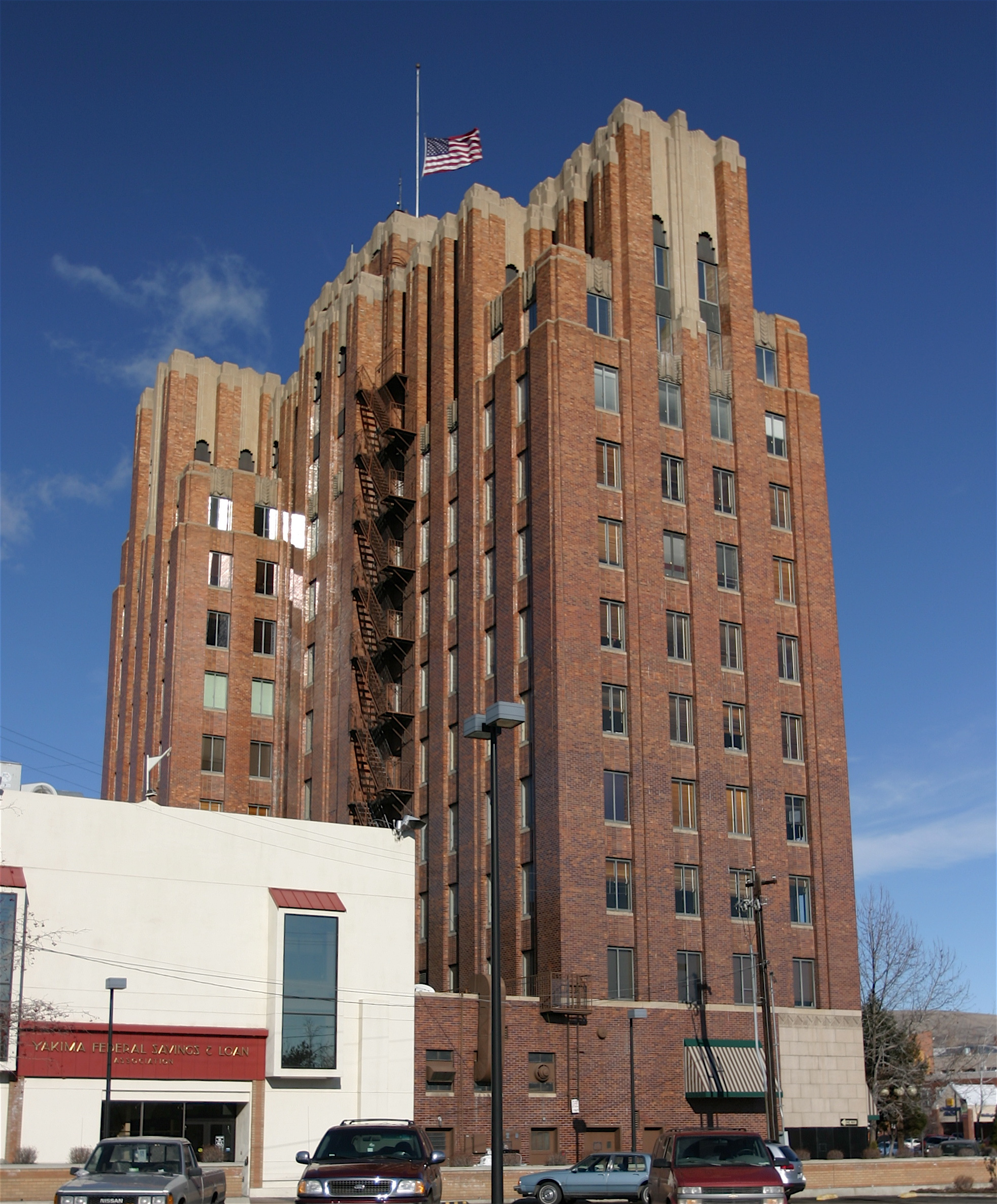 The Larson Building in Yakima, Washington, seen from the southwest.